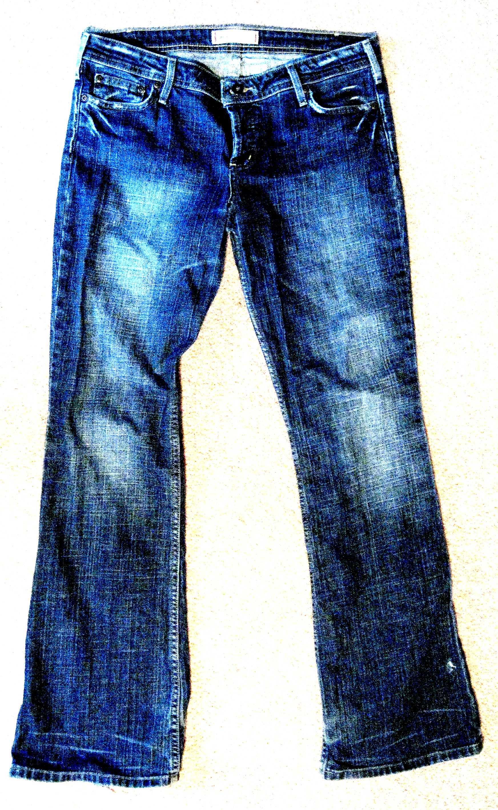 picture of a pair of jeans taken with a Canon PowerShot A560, 7.1 megapixel, cropped and altered color